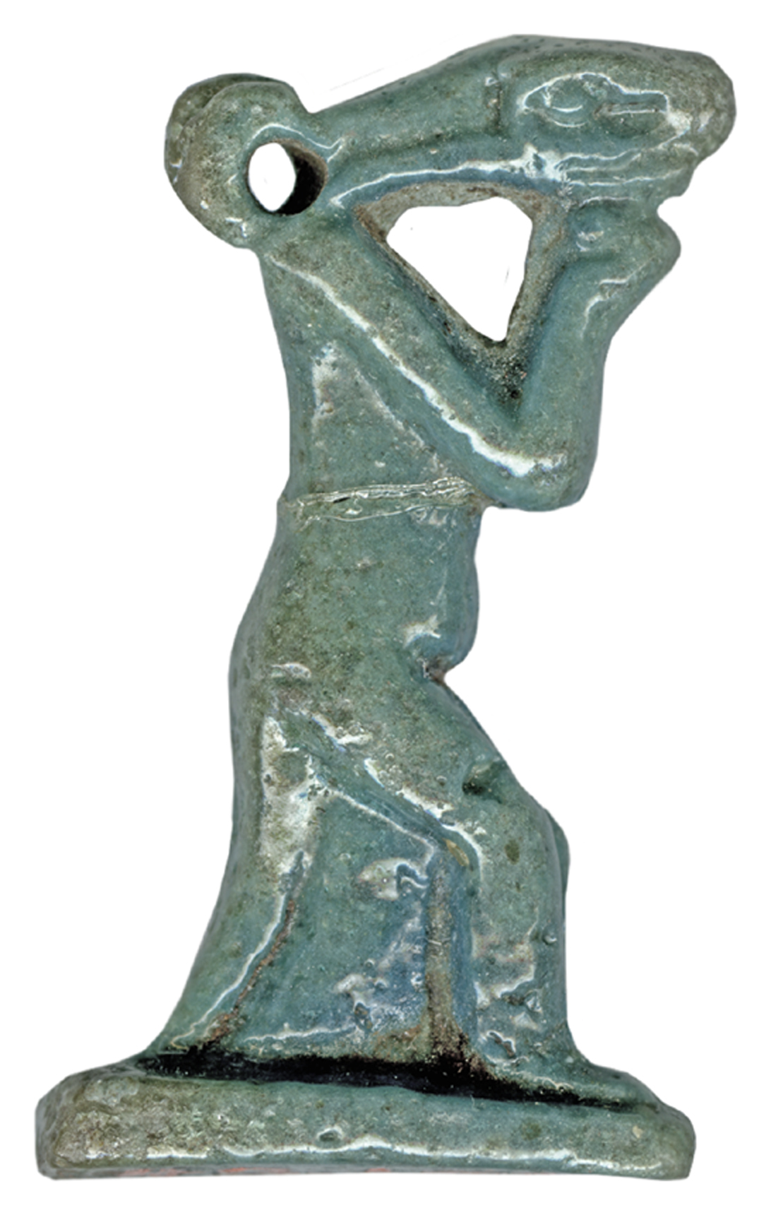 The serpent-god Neheb-kau was one of 42 "judges" the deceased encountered in the underworld, according to the funerary text known as "The Book of the Dead." Neheb-kau, identified with invincible living power, provided nourishment to the dead; he was also identified as a manifestation of the creator god Atum. This representation has a human body with a serpent head and tail. The knees are flexed, and the hands at the mouth.